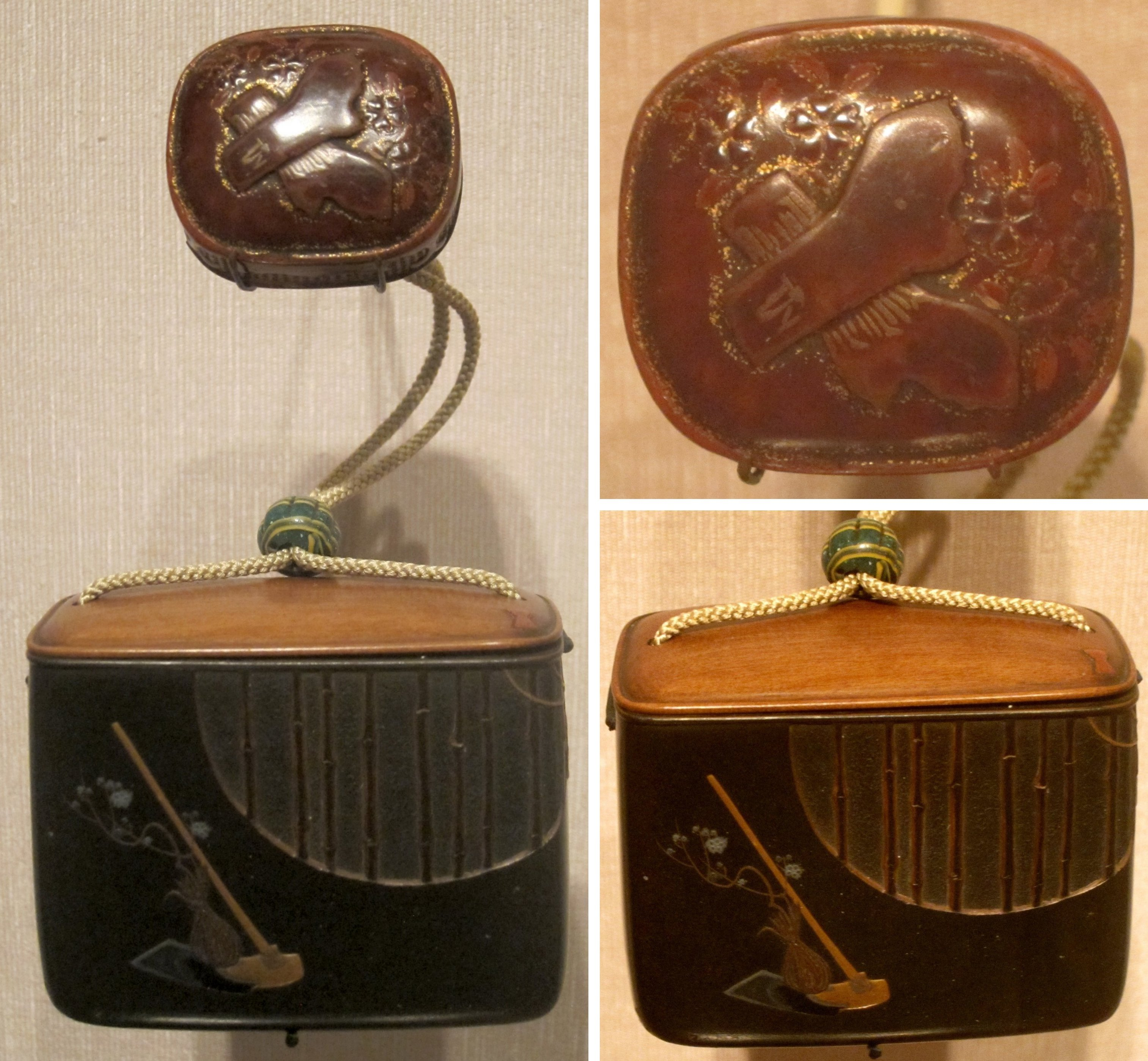 Shibata Zeshin, tobacco container with moon window and netsuke, late Edo-early Meiji period, wood, lacquer, gold, silver and silk, Honolulu Museum of Art